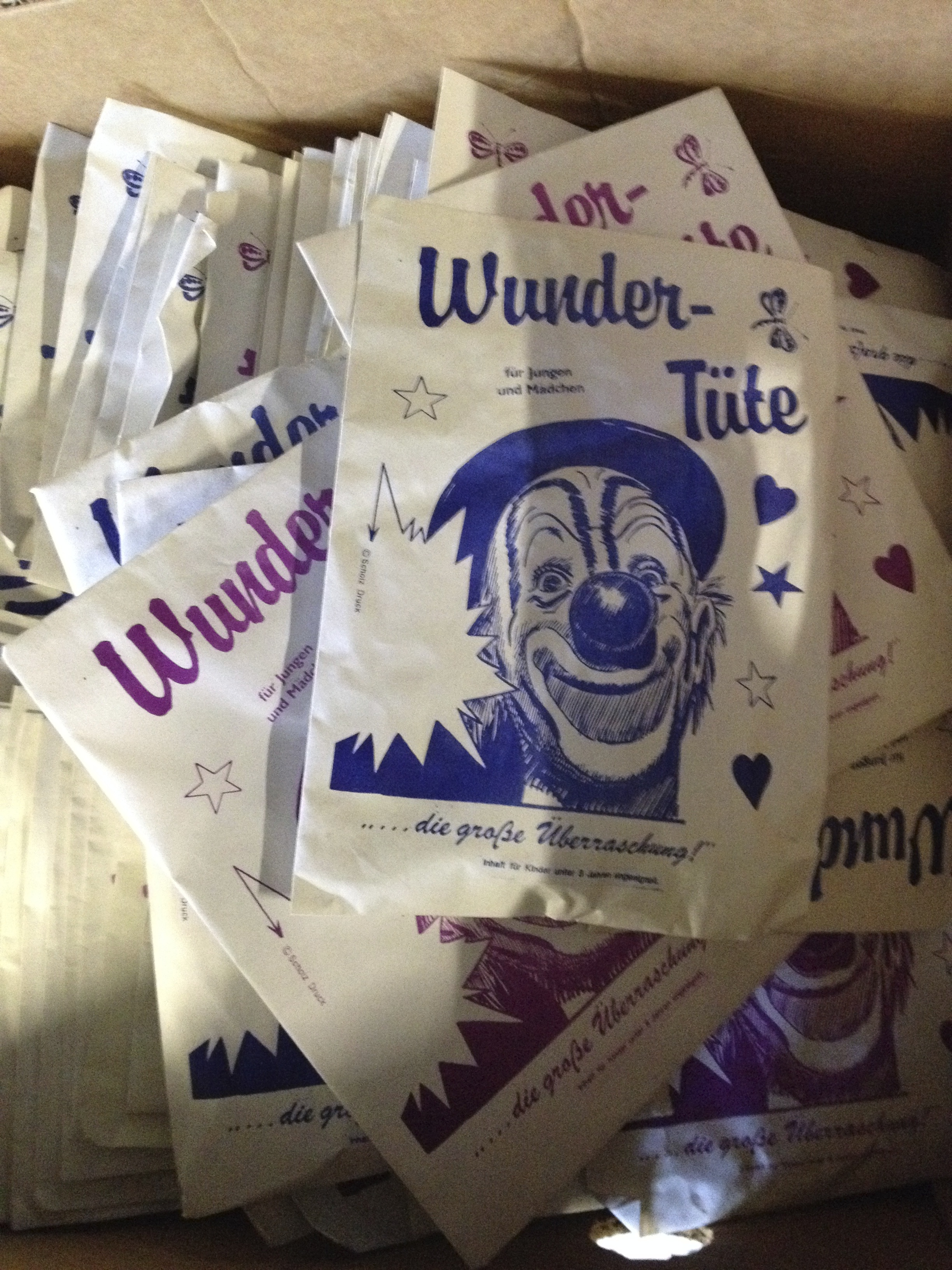 Surprise bag